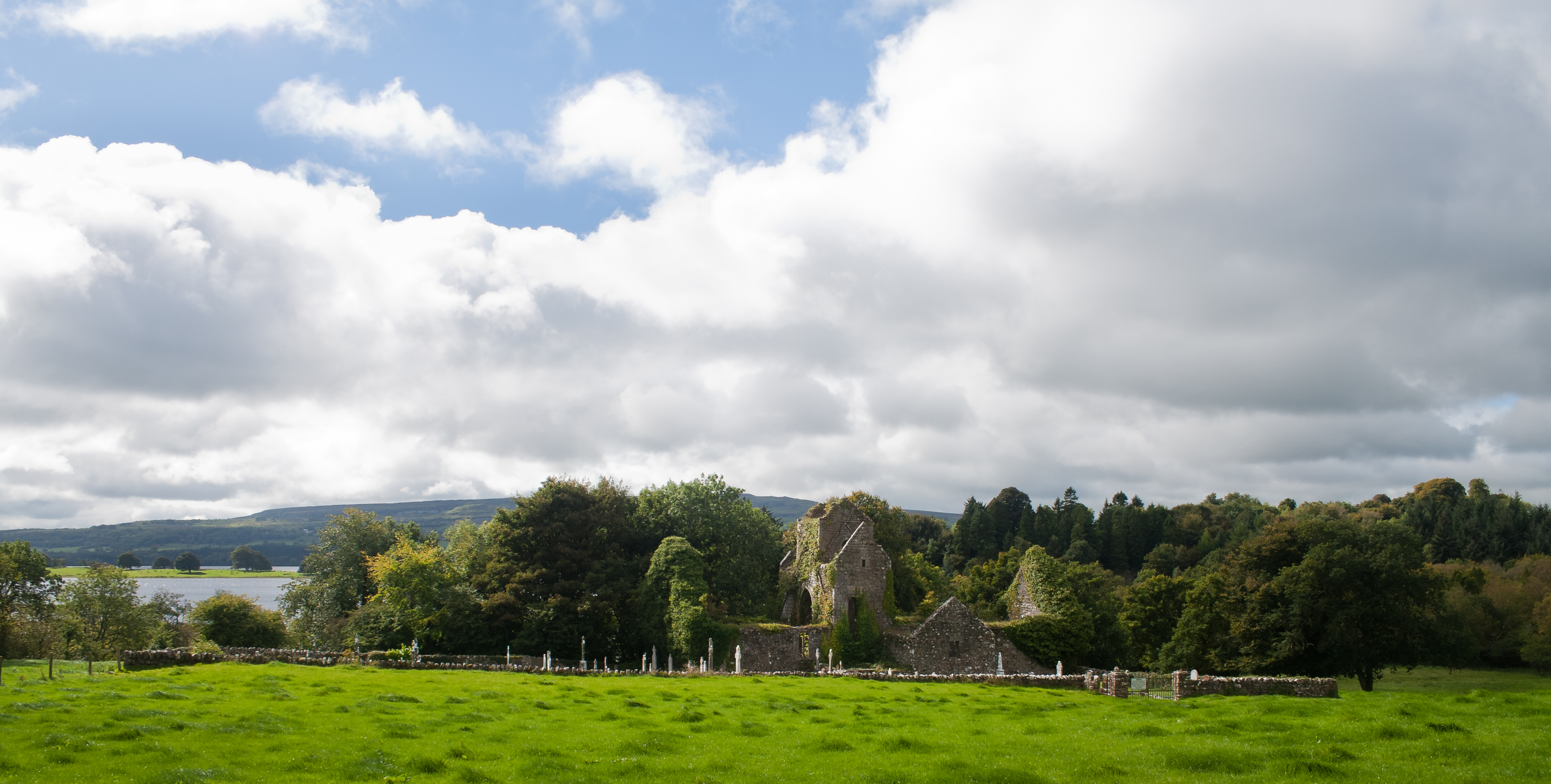 North range of Ballindoon Priory with Lough Arrow in the background.